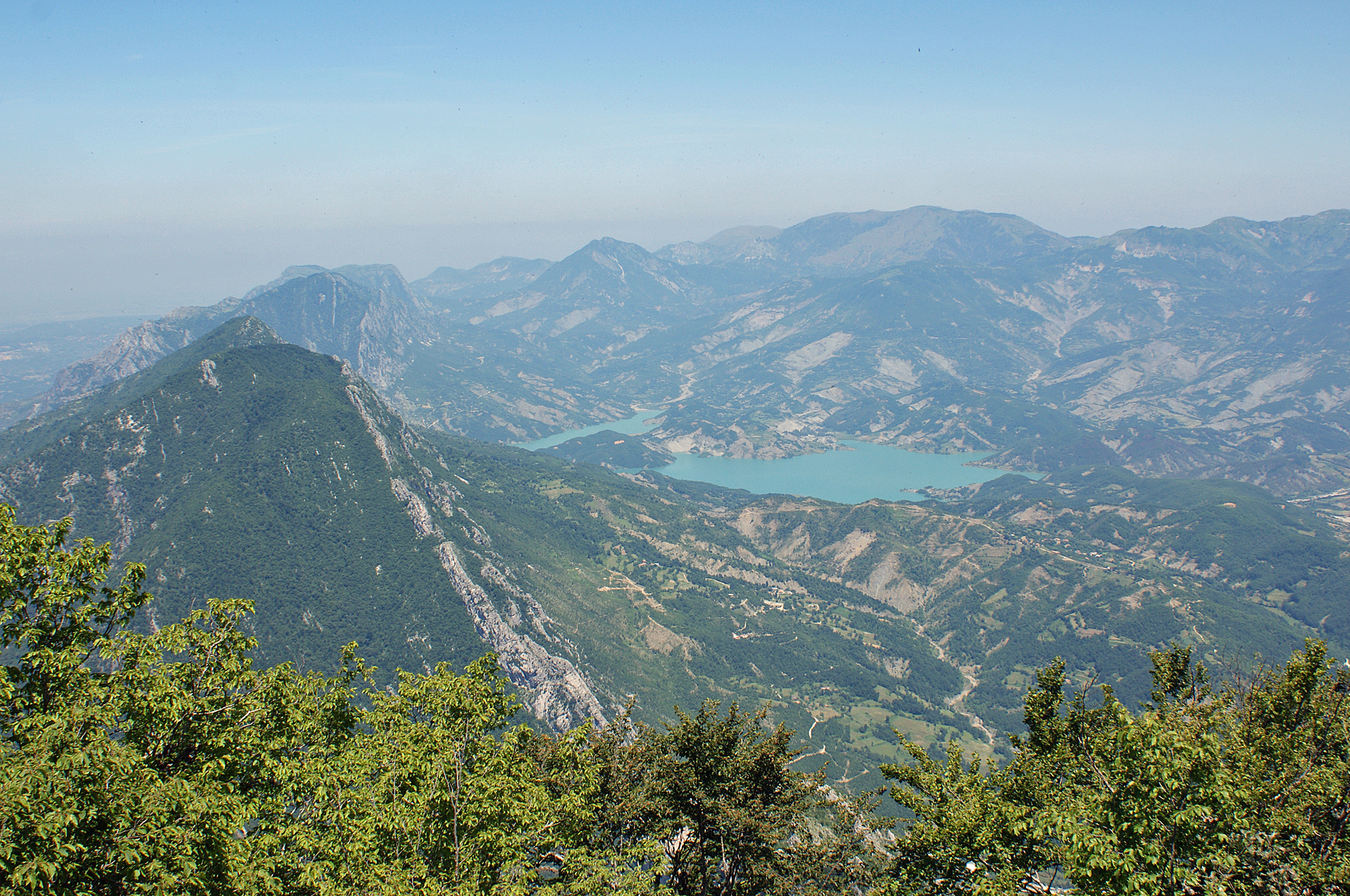 Bovilla Reservoir and surroundings North of Tirana seen from Maja e Tujanit (Mount Dajti).